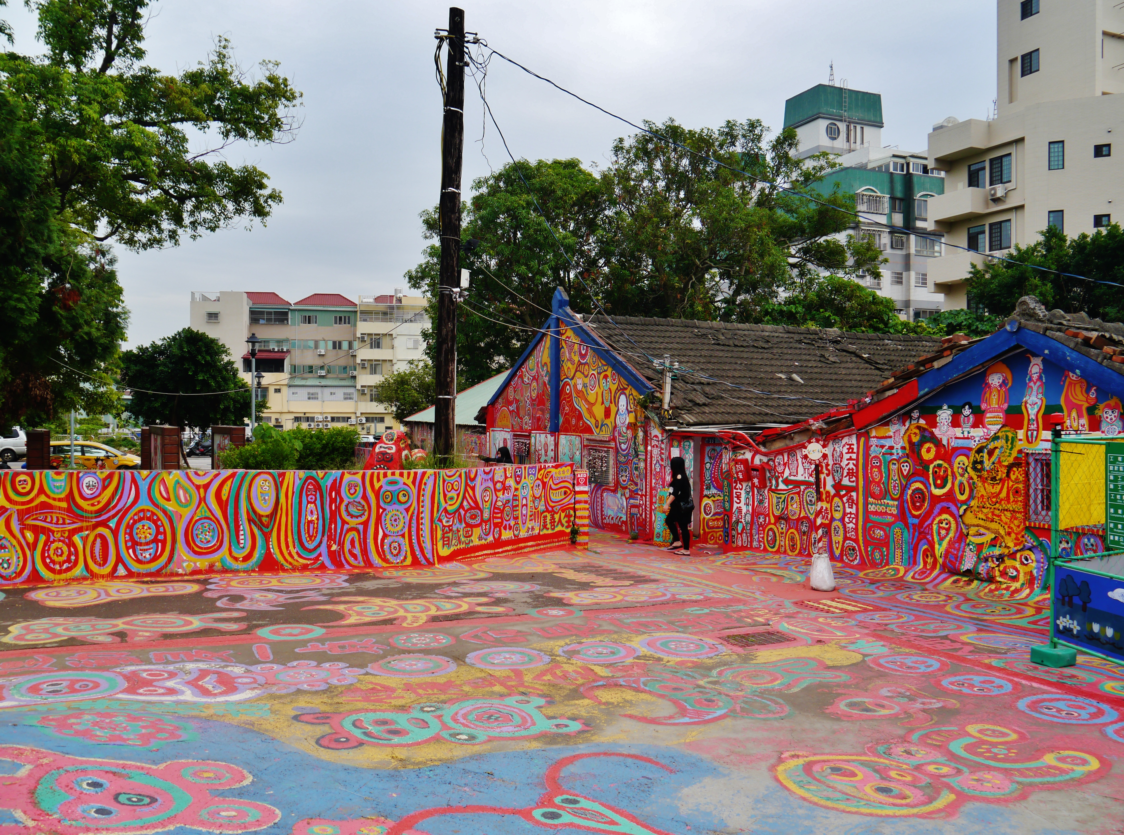 Rainbow Village, Taichung, Taiwan